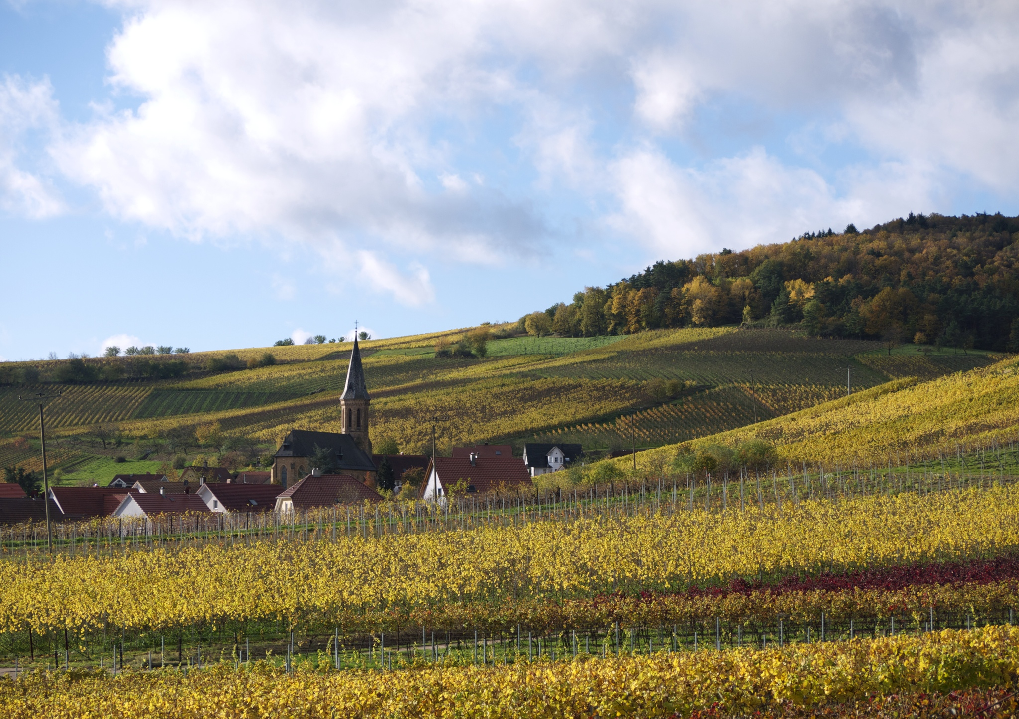 Birkweiler (Germany) in the fall. In the center you can see the catholic church St. Bartholomew.